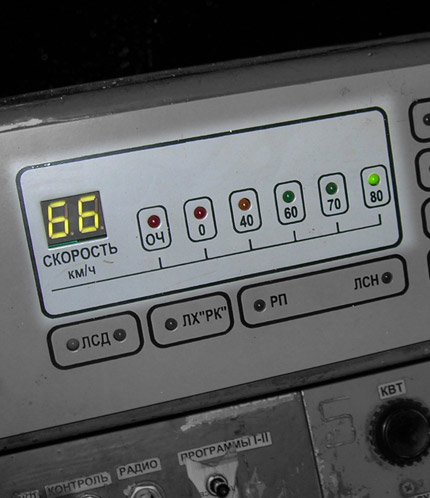 Panel of ALS-ARS system, cab of the subway wagon 81-717. Current speed 66 km/h, max speed 80 km/h.